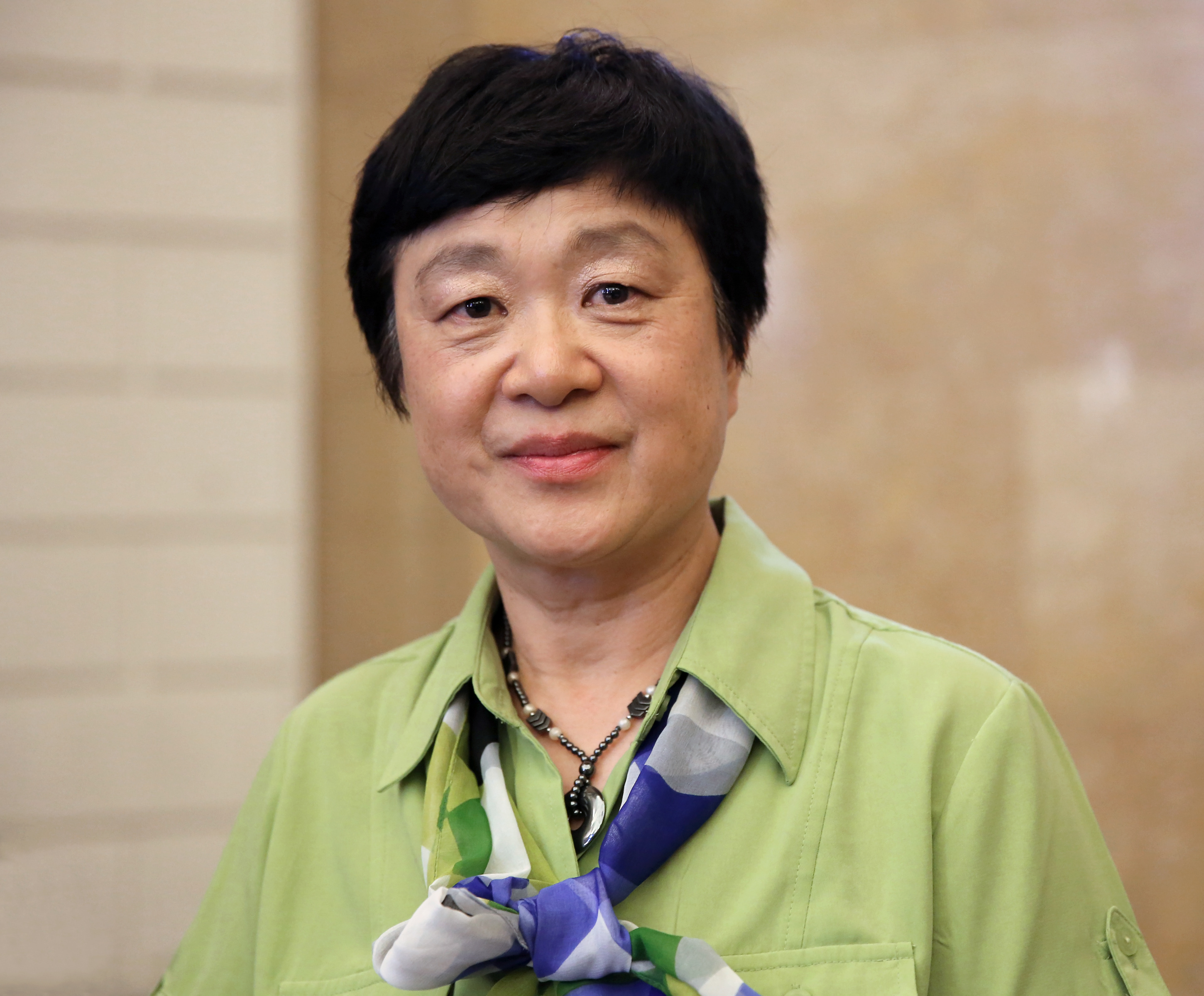 Women in Space: The Next 50 Years (Celebrating 50 Years of Women in Space) - public panel and discussion on invitation of UNOOSA with Roberta Bondar, Janet L. Kavandi, Dumitru-Dorin Prunariu, Chiaki Mukai and Liu Yang (Naturhistorisches Museum in Vienna, Austria).